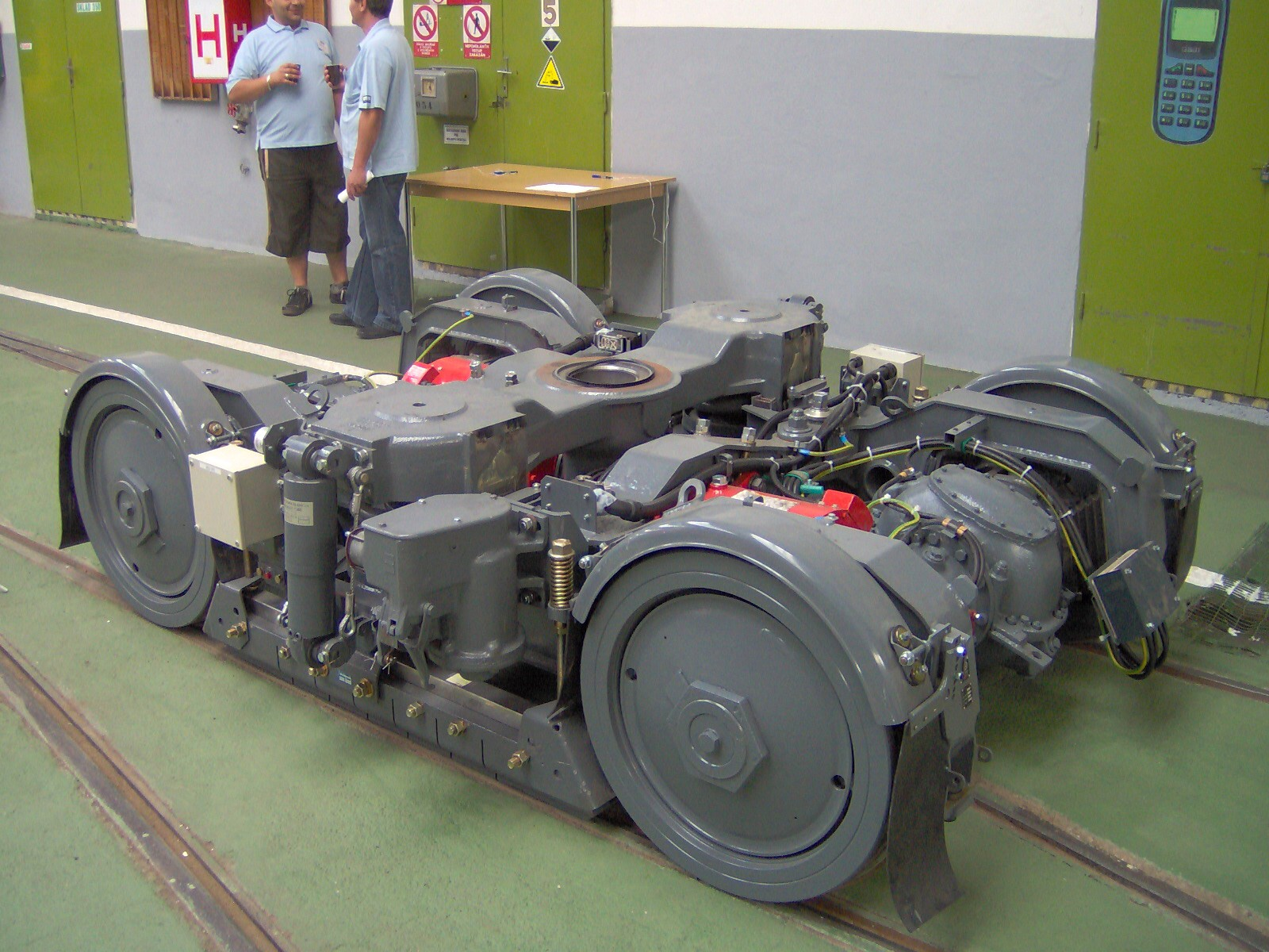 Chassis of Vario LF2 tram, 140 years of public transport in Brno, Czech Republic